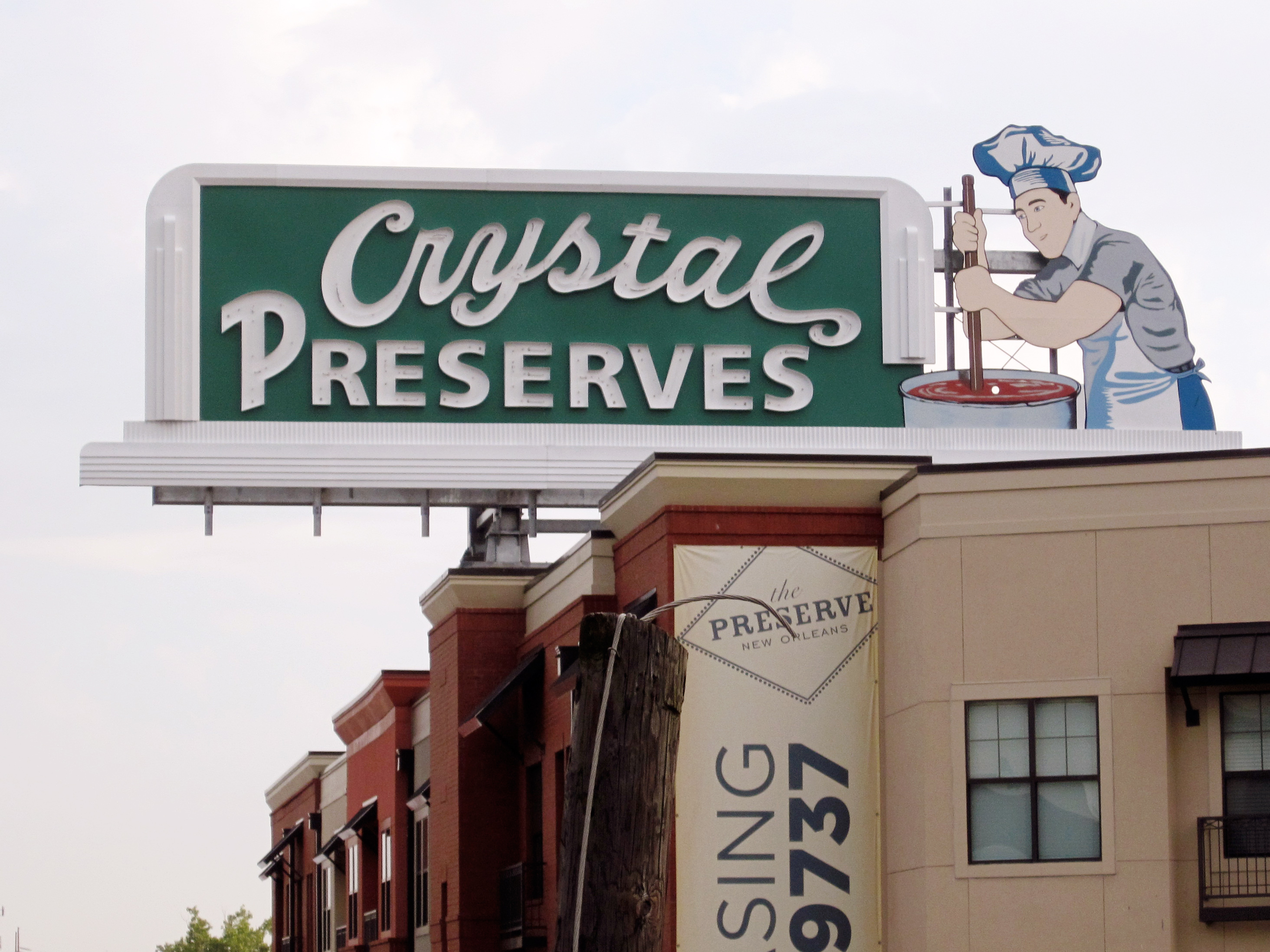 Mid-City New Orleans. Apartment building erected on location of old Crystal Hot Sauce factory. The landmark early 20th-century sign formerly atop the factory has been restored and re-erected atop the apartment building.